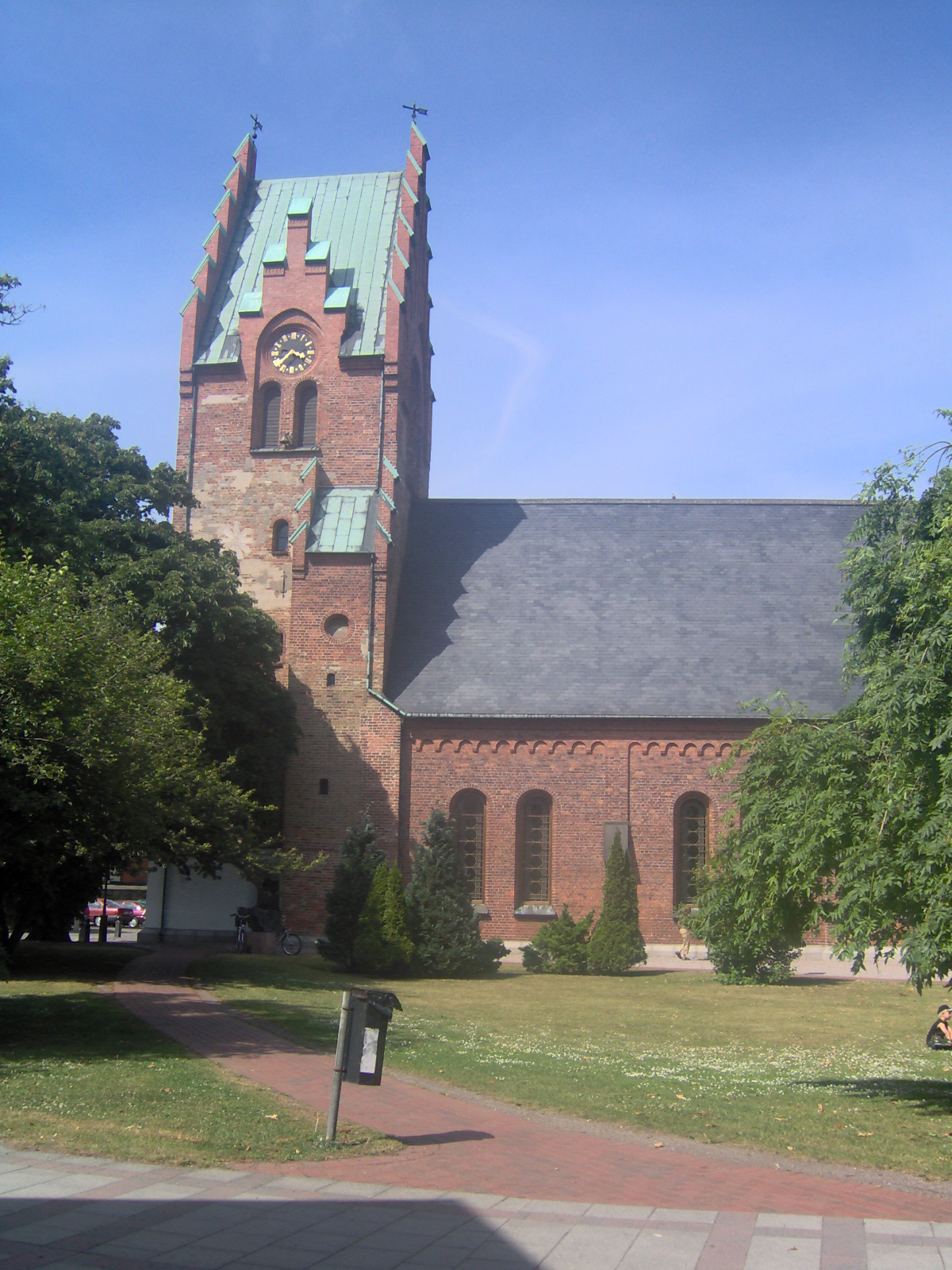 St. Nicolai church, Trelleborg Source: taken by user july 7th 2005